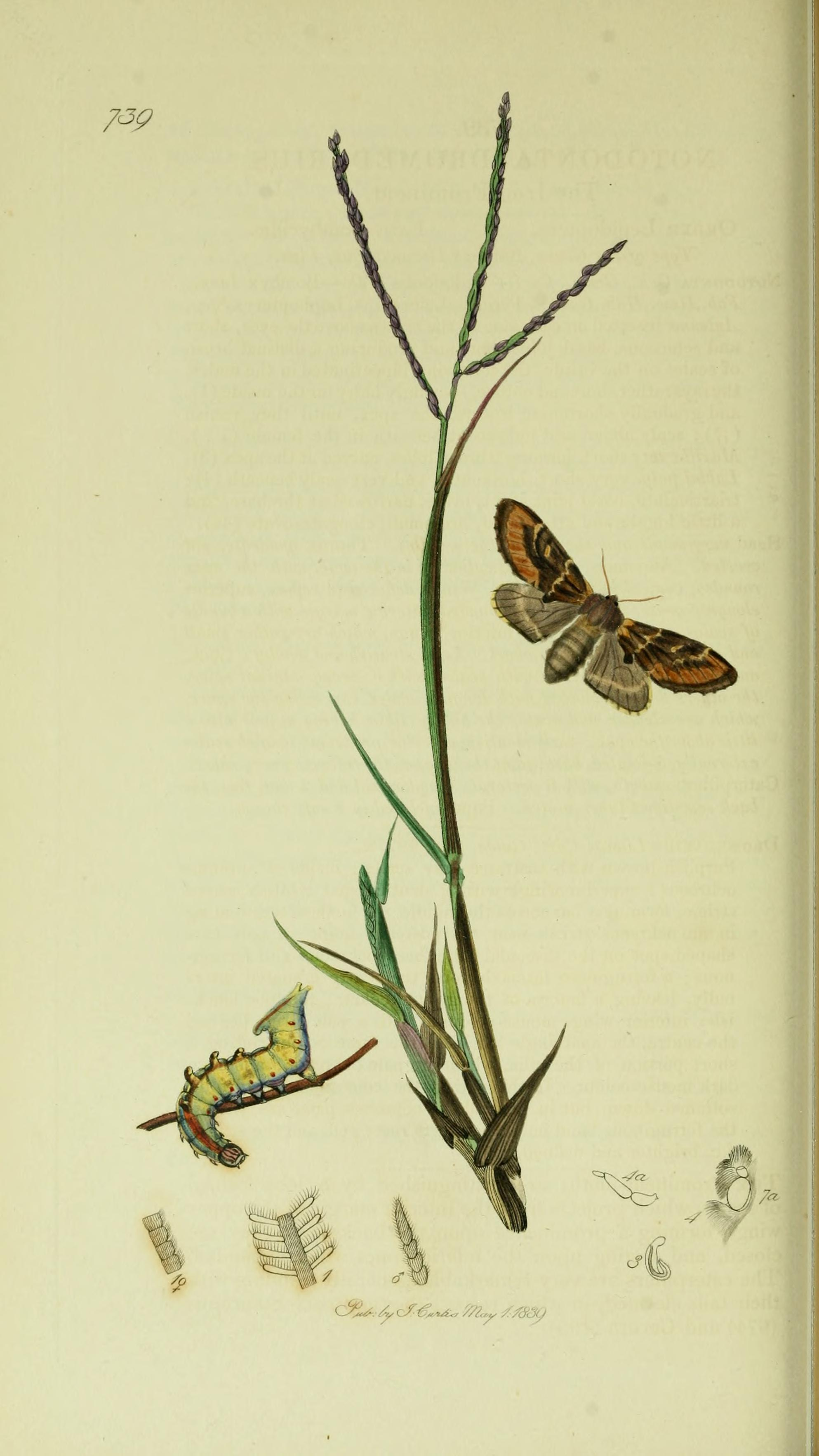 An illustration from British Entomology by John Curtis. Notodonta dromedarius (Iron Prominent).